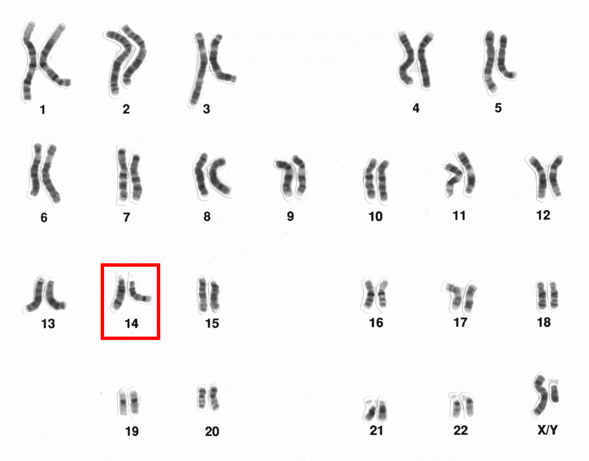 Human male Karyotype after G-banding. Chromosome 14 highlighted